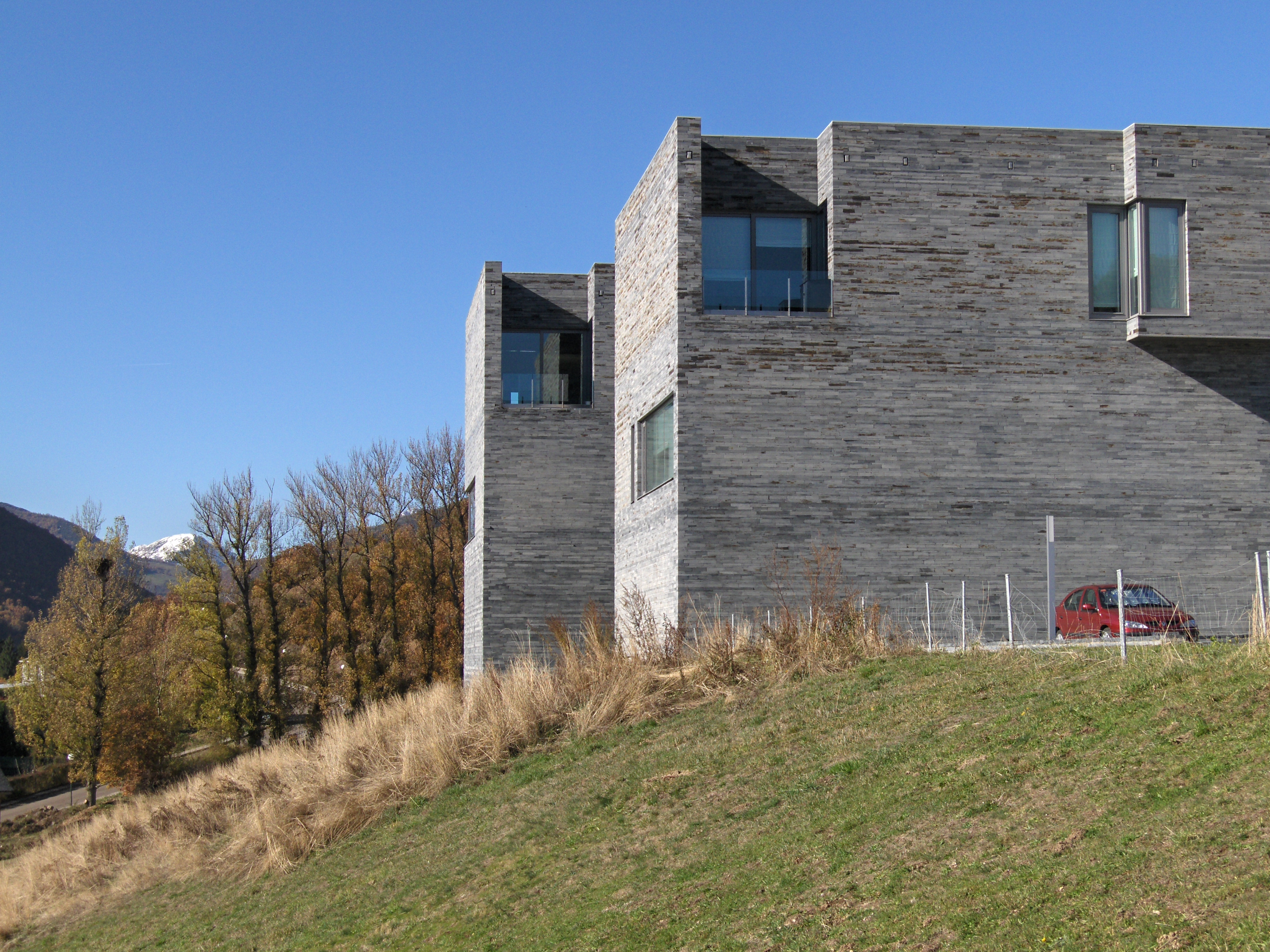 Valle de Laciana health centre, Laciana, proince of León, Spain.